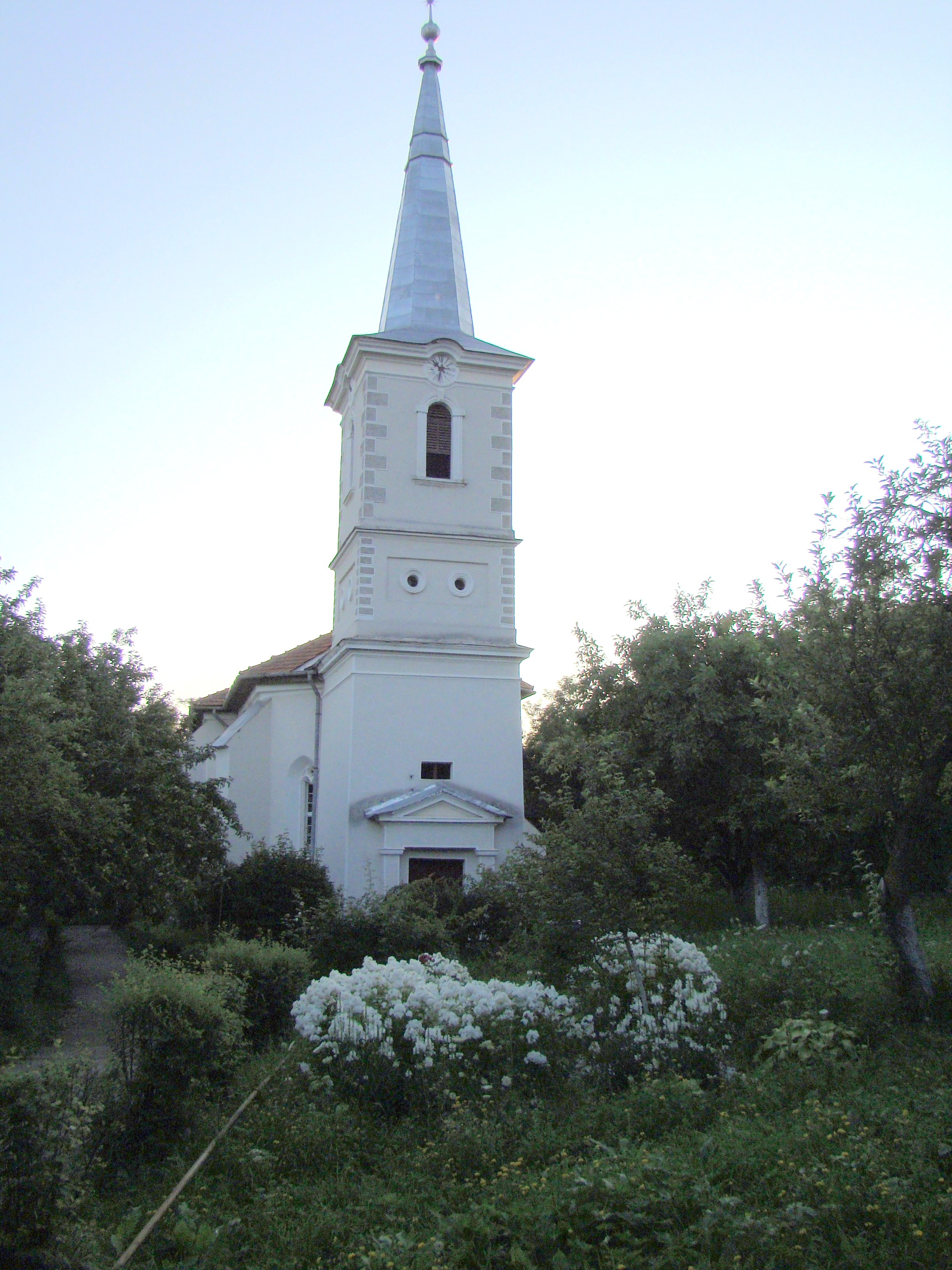 reformed church in Țigău (Cegőtelke) village, Romania